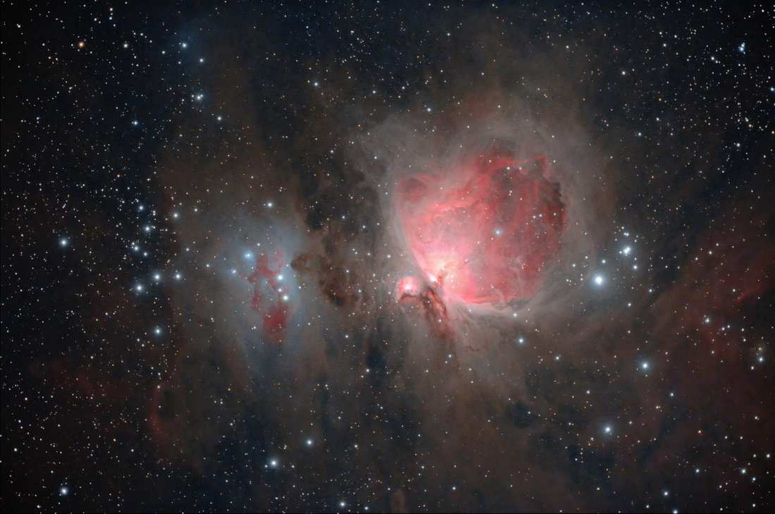 M42 - Orion Nebula and Surrounding Nebulosity including M43 and Running Man Nebula